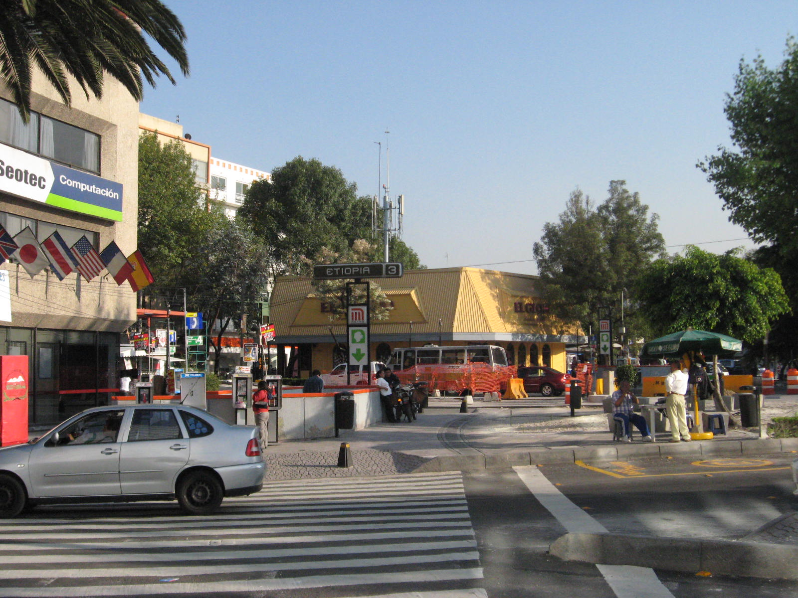 Entrance to Metro Station Etiopia located on Cuauhtemoc Avenue in Mexico City on Line 3